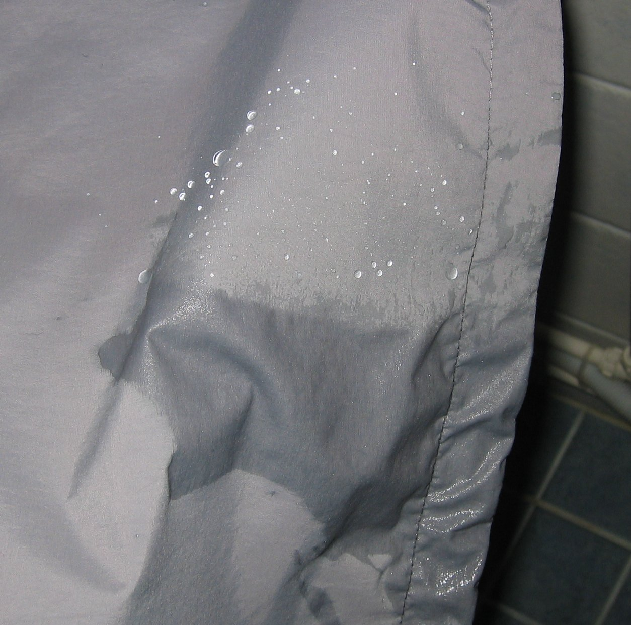 Effect of water repellent on a shell layer jacket (Haglöfs Heli II)